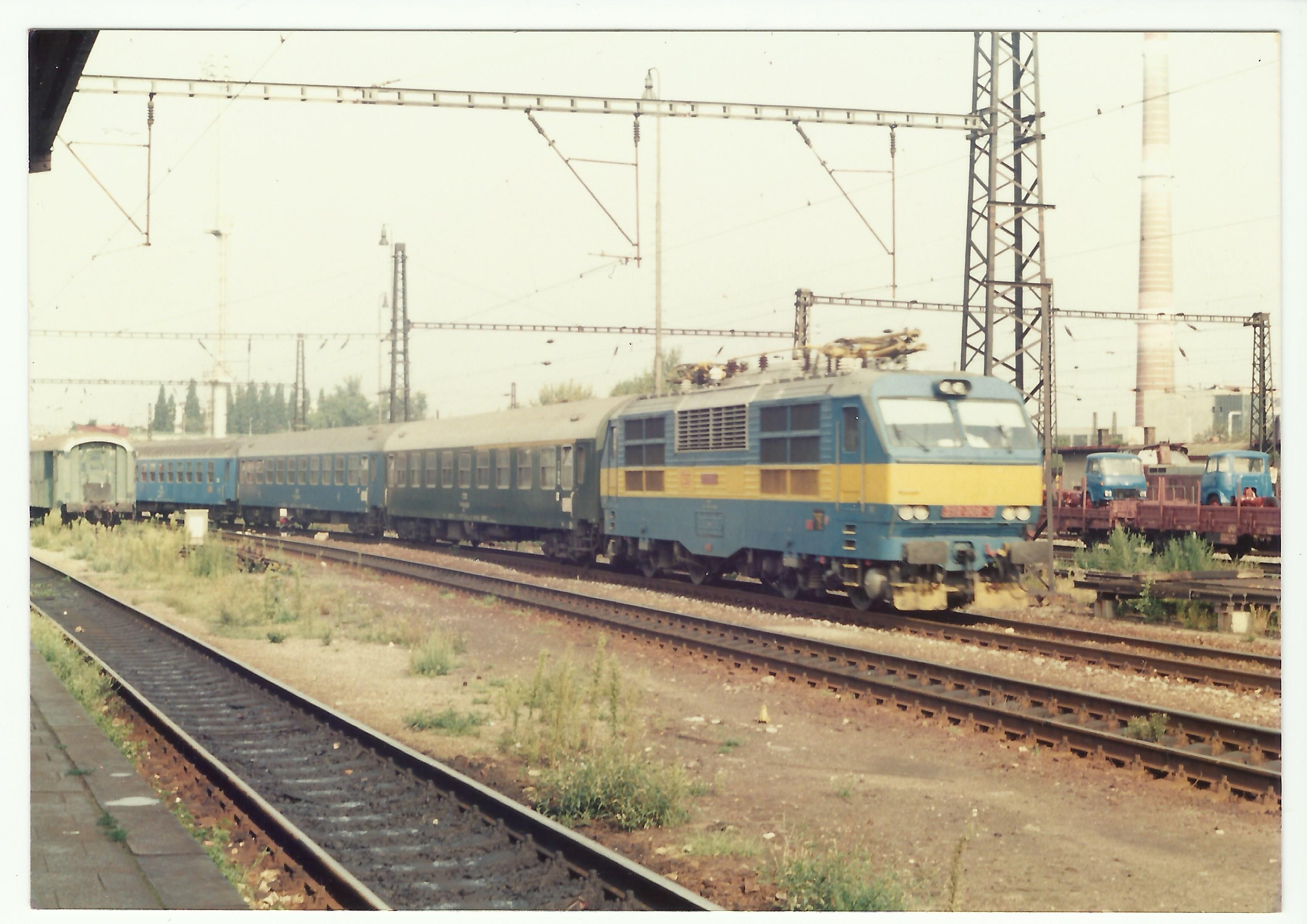 350 004-3, Kolín 1990 (Czechoslovakia).